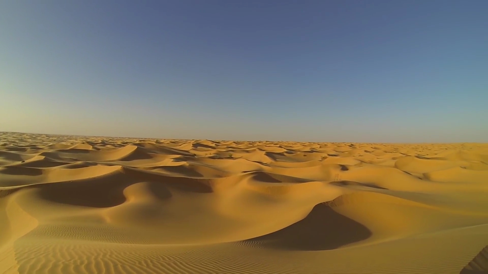 Algeria Sahara Desert Photo From Drone